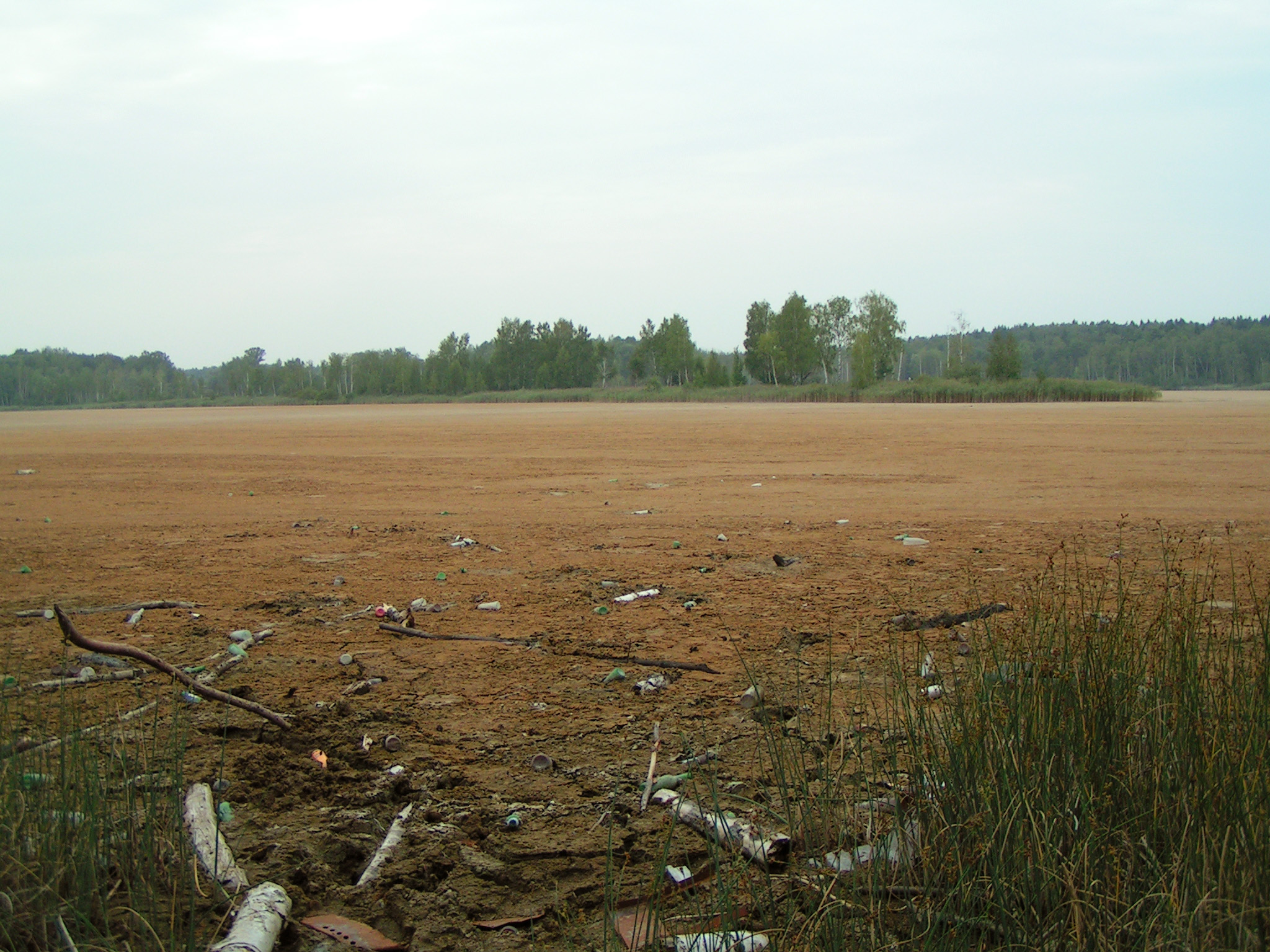 Mazurinskoe lake in Moskovskaya oblast, Balashikha, Russia. Beautiful lake and resort in the past, now it is destroyed due to improper wastewater treatment.